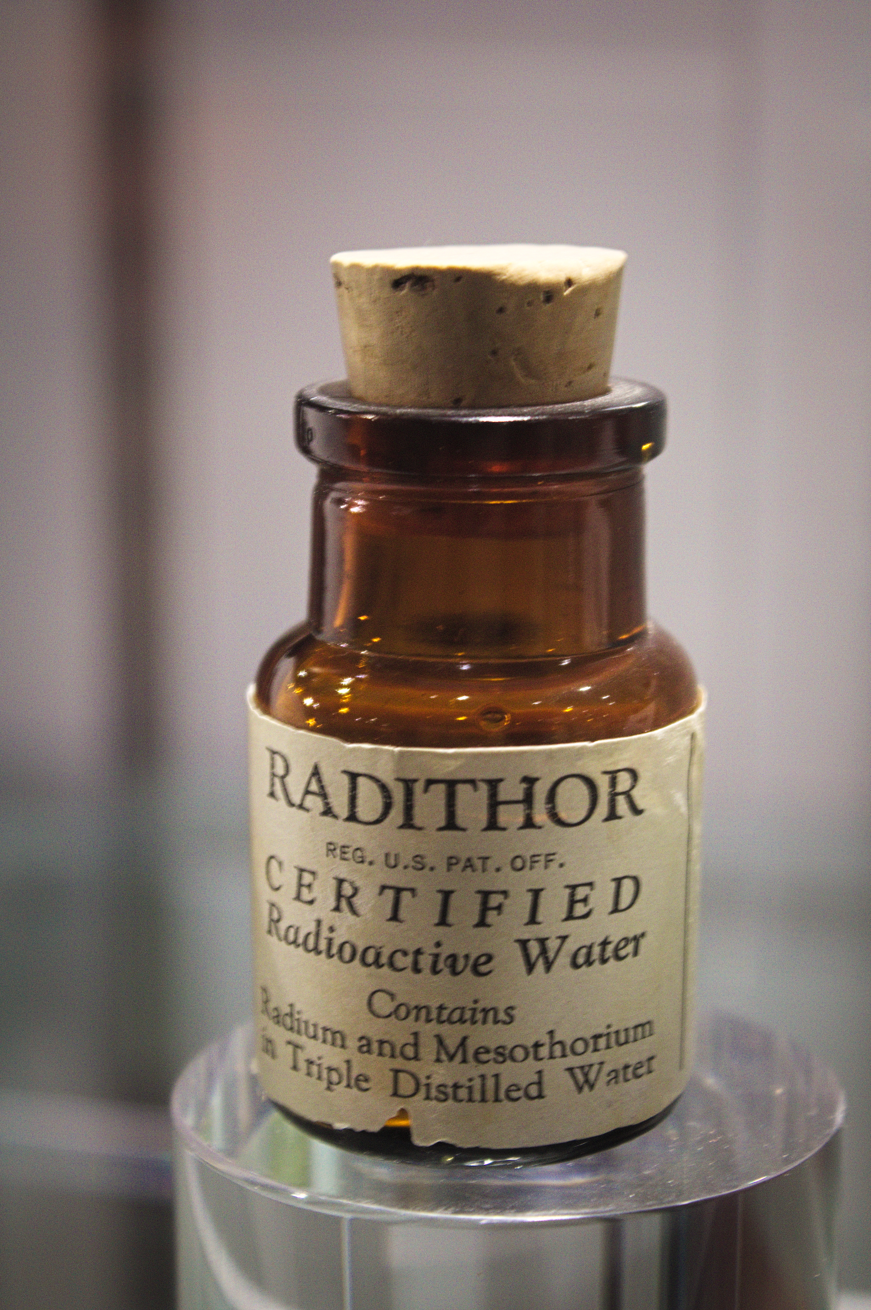 Back in the 1920s, people thought that drinking radium- and thorium- infused water was healthy. One of the more famous varieties of this water was sold under the brand name Radithor. It was eventually famously implicated in the illness and subsequent death of an industrialist named Eben Byers, which was accompanied by the headline of "The Radium Water Worked Fine until His Jaw Came Off" (personally my favorite headline ever). Photo taken at the National Museum of Nuclear Science and History in Albuquerque, New Mexico. I had known the story of Eben Byers for a while, so this little vial sparked my interest immensely. This image is licensed with a Creative Commons Attribution Share-Alike license. I did this for this image (not all of mine, most are all rights reserved), as I believe that scientific and historical knowledge and images are worth sharing with the world; this license means that you are free to use my image in whatever way you want, so long as you give me credit ("Attribution") and keep the same license on it.